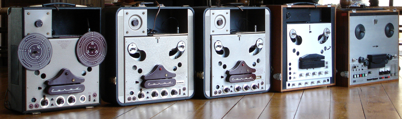 Carad tape recorders from 1954 to 1971: R62v1, R62v2, R53, R59, R73